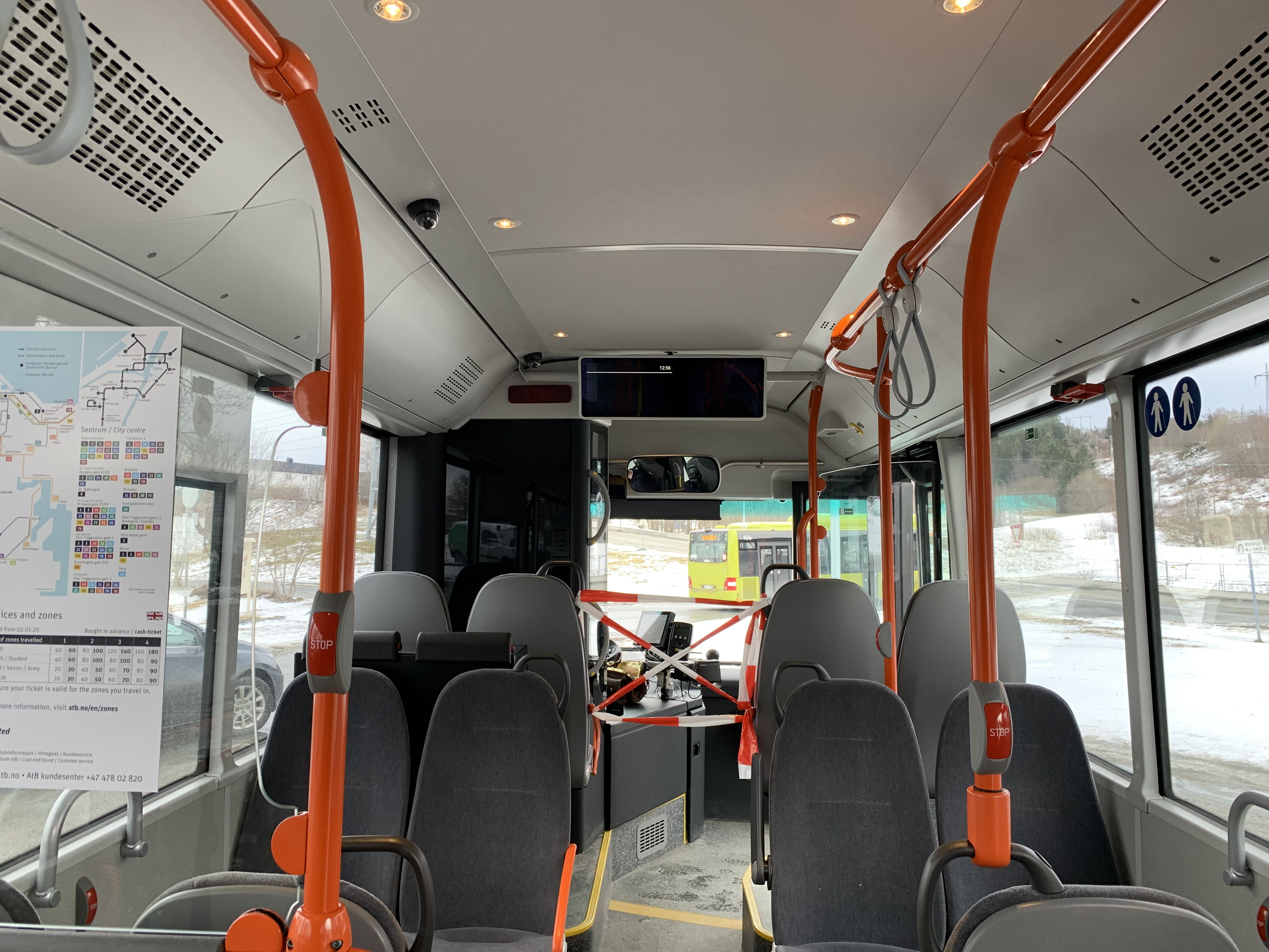 Separation of an area near the driver, bus in Trondheim, protection against coronavirus 2020